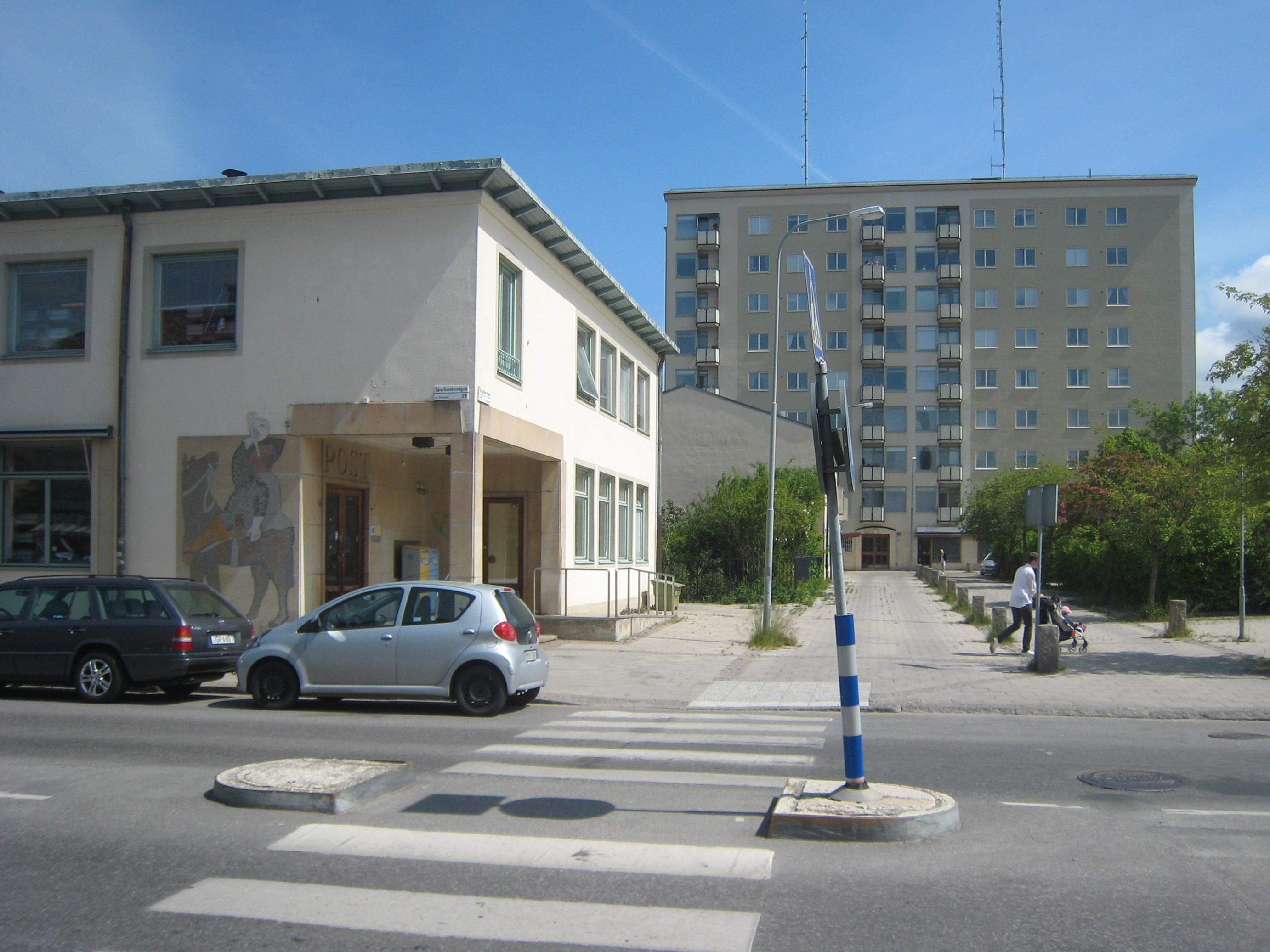 Riksdalertorget.